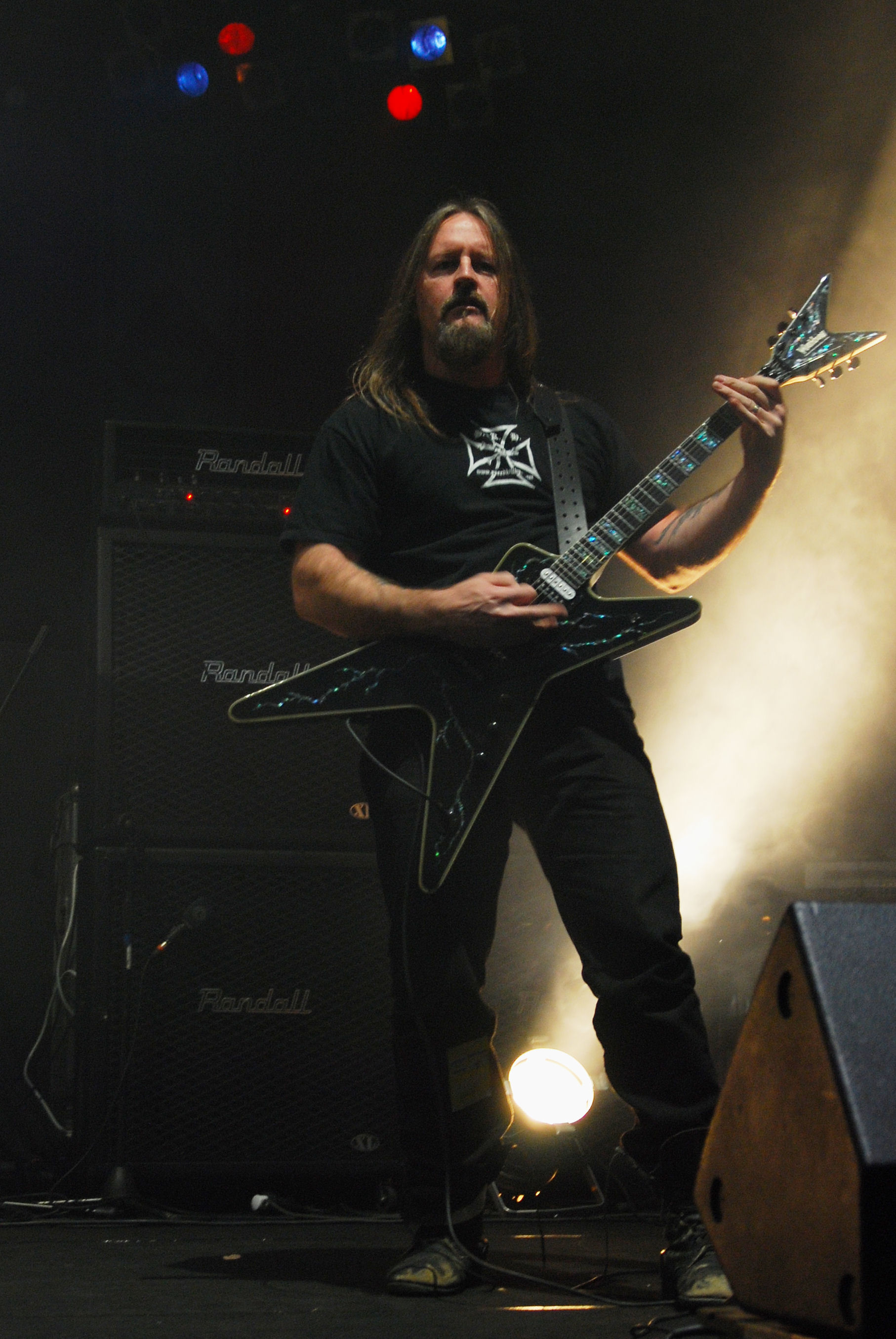 Derek Tailer "Skull" from Overkill during Metalmania 2008 festival